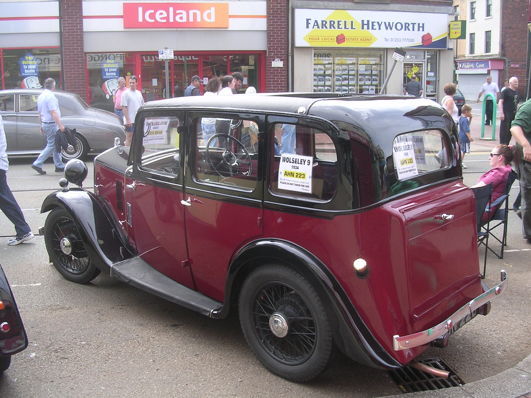 Wolseley Nine 1934 (DVLA) first registered 1 October 1934, 900cc